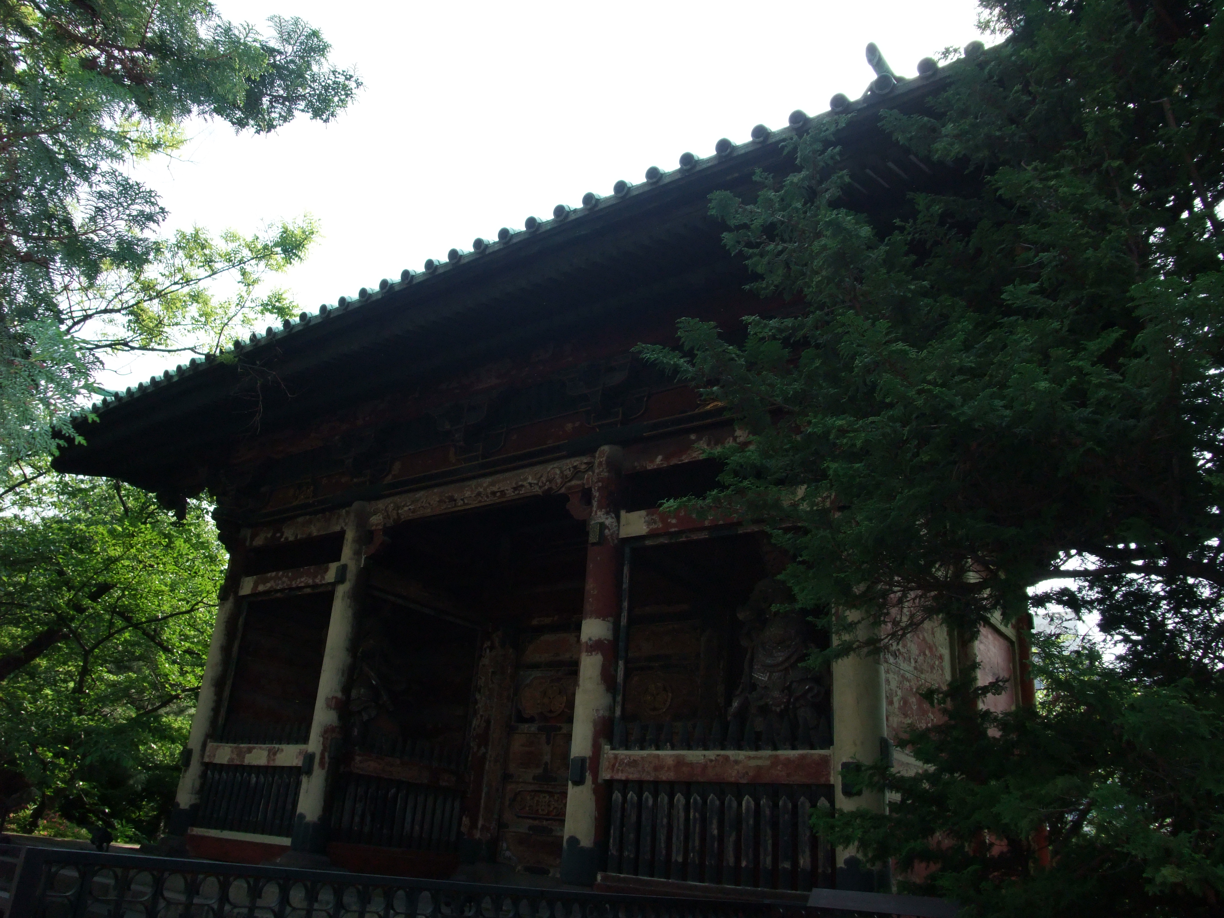 Niten-mon gate, Yūshōin (Tokugawa Ietsugu) mausoleum(Japan's national important cultural property) located in front of Tokyo Prince Hotel